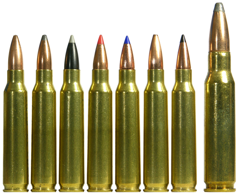 A variety of .223 Remington cartridges and a .308 Winchester (right) for comparison. Bullets in .223 cartridges (left to right): Montana Gold 55 grain Full Metal Jacket, Sierra 55 grain Spitzer Boat Tail, Nosler/Winchester 55 grain Combined Technology, Hornady 60 grain V-MAX, Barnes 62 grain Tipped Triple-Shock X, Nosler 69 grain Hollow Point Boat Tail, Swift 75 grain Scirocco II